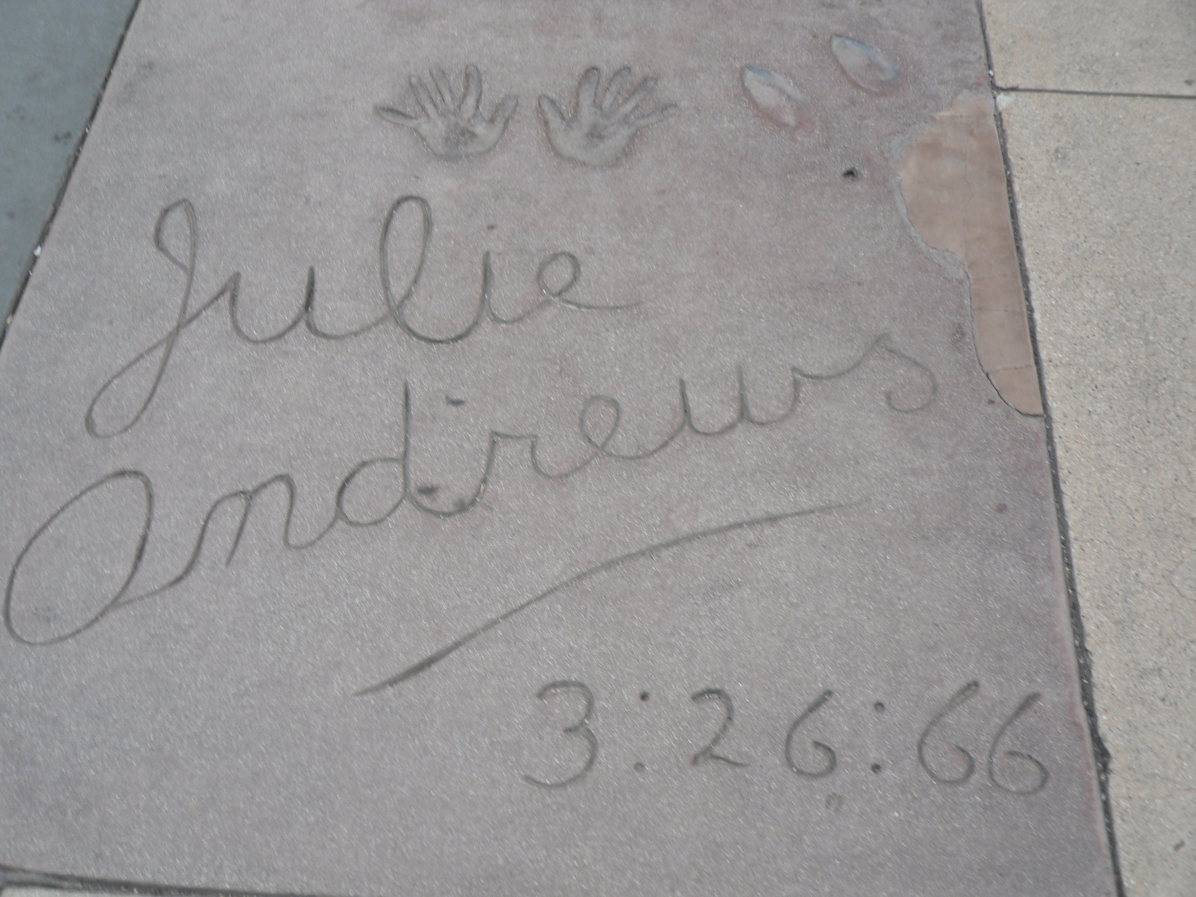 Julie Andrews's signature at Grauman's Chinese Theatre